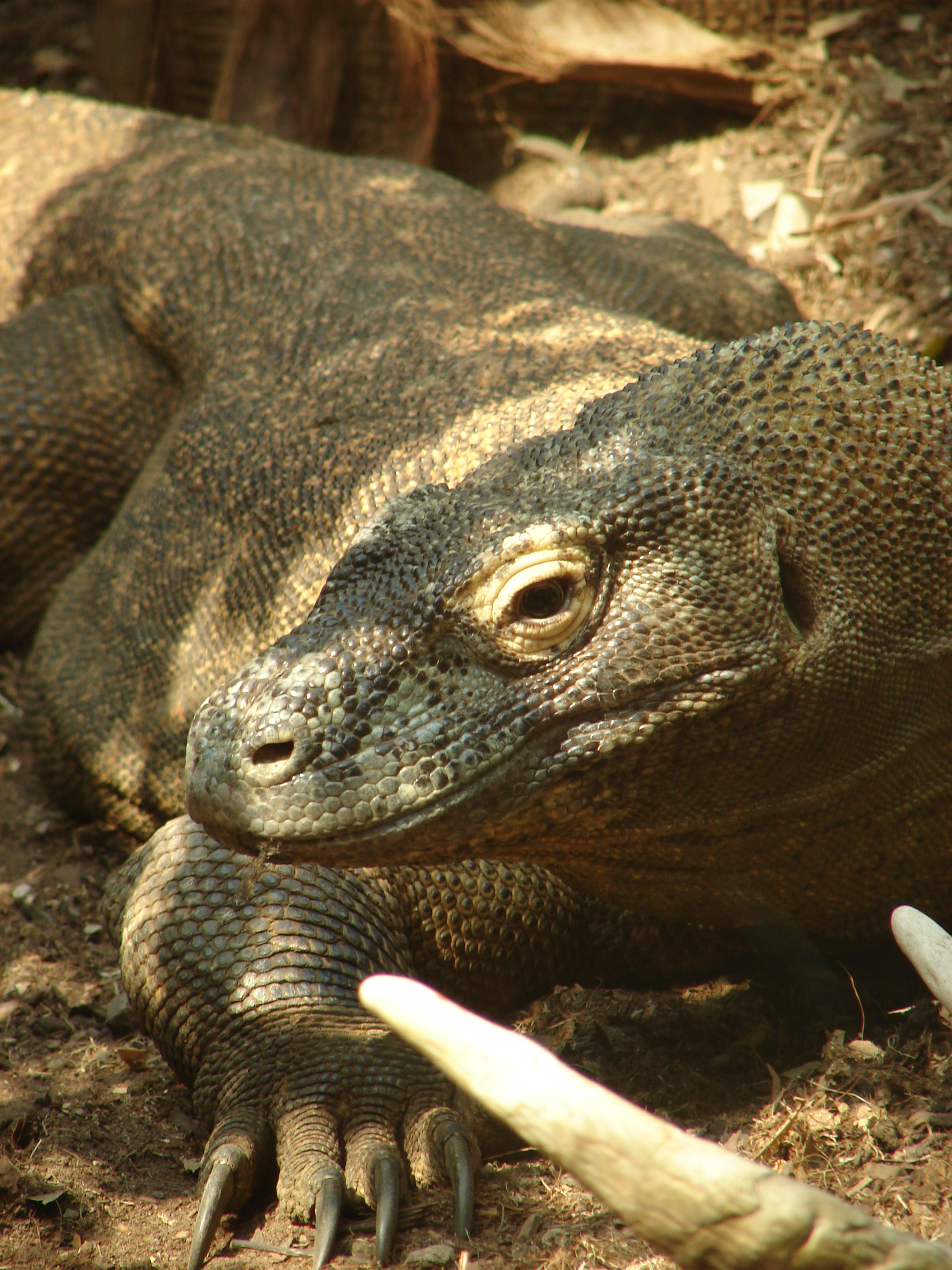 Images from London Zoo. Komodo Dragon Location: NW1 4RY